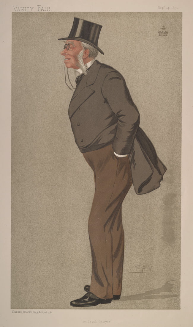 Statesmen No.618: Caricature of Lord Morris of Spiddal. Caption reads: "an Irish lawyer"